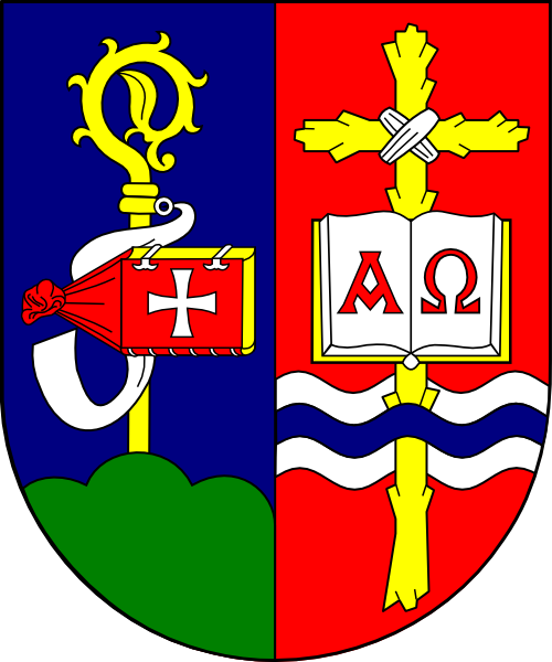 Coat of arms (shield only) of Johannes Jung, abbot of Schottenstift (Scottish Abbey), Vienna (2009 - ). Based on this: (p. 3)